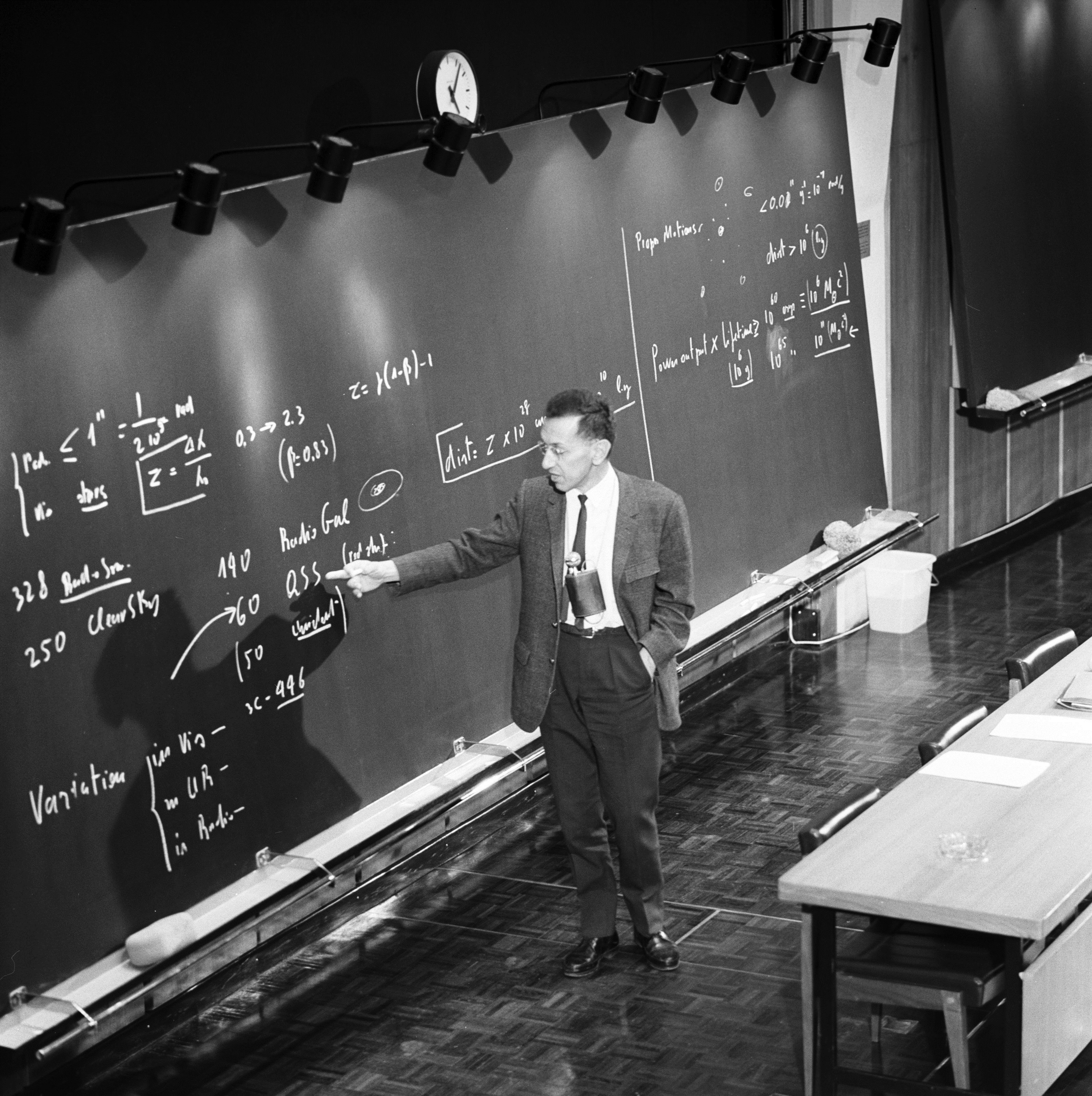 Professor Giuseppe Cocconi giving a lecture in CERN's main auditorium in February 1967.